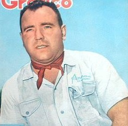 Santiago Luján Saigós- piloto argentino